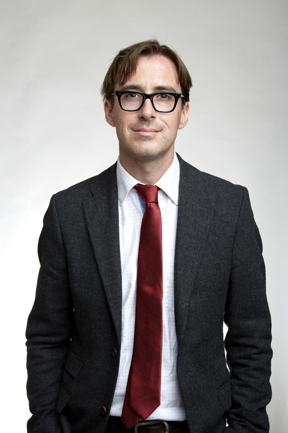 Kevin Joseph Costello is an Irish mathematician, since 2014 the Krembil Foundation's William Rowan Hamilton chair of theoretical physics at the Perimeter Institute in Waterloo, Ontario, Canada Attribution: The Royal Society